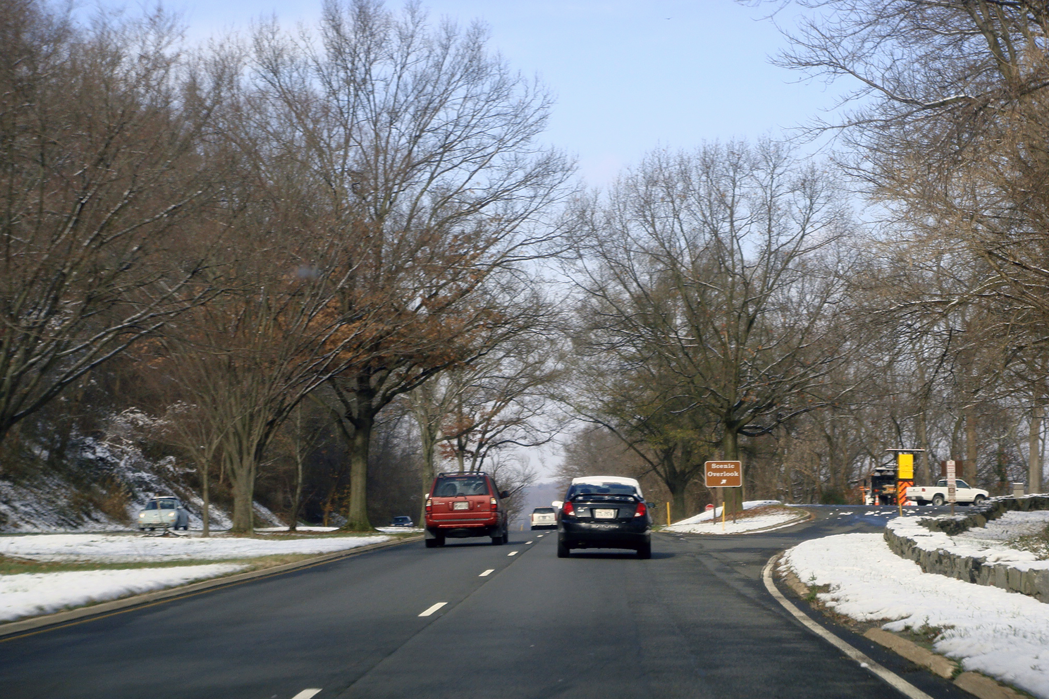 George Washington Memorial Parkway,between Arlington and the Capital Beltway (I-495), Virginia. At the right, entrance to the scenic overlook parking lot.